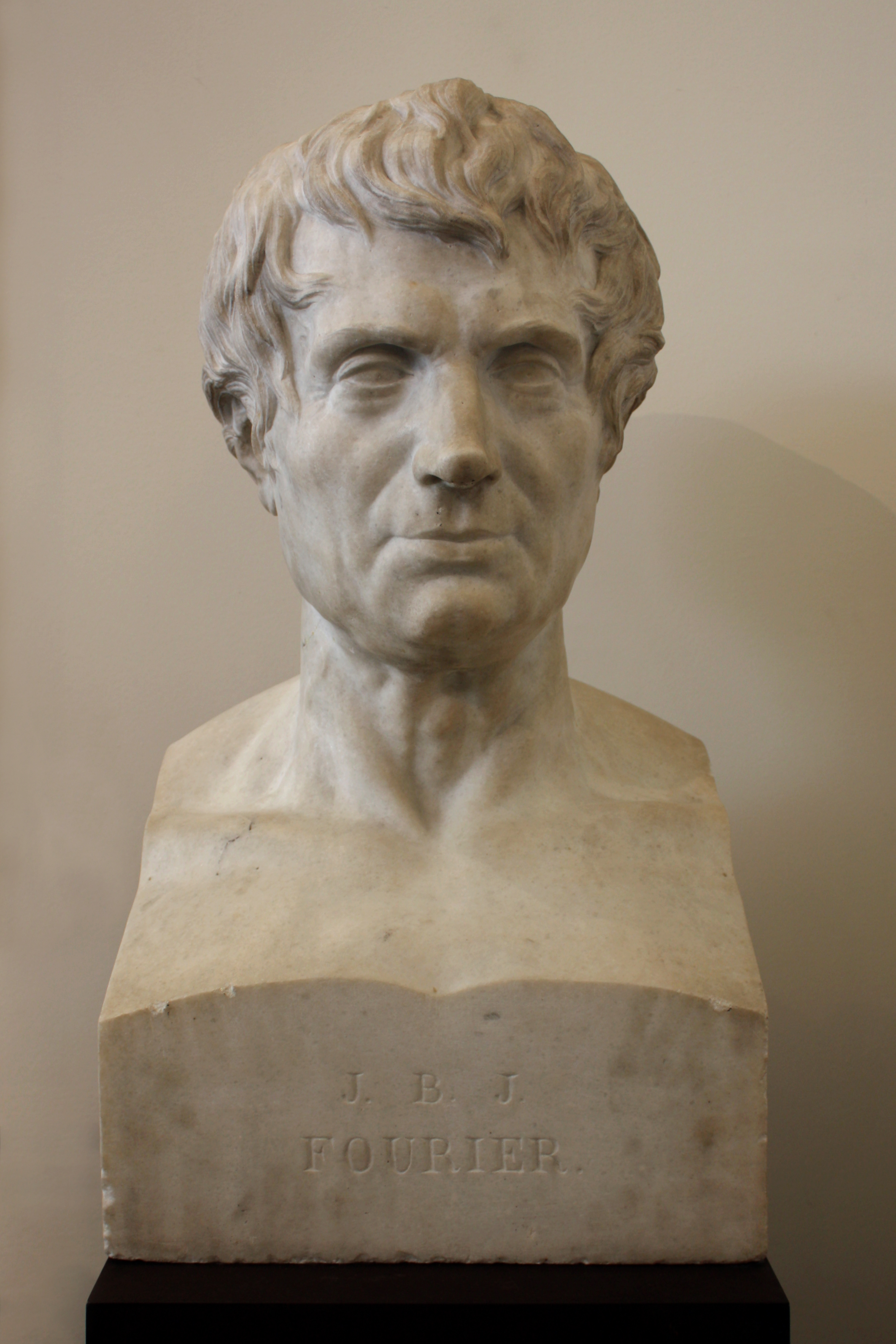 Bust of Joseph Fourier in the former bishop's palace museum in Grenoble. Marble scultpure by Pierre-Alphonse Fessard (1768-1830), 1839. Collection of the Musée Dauphinois.